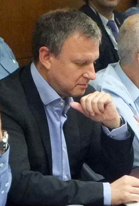 Erel Margalit MK.